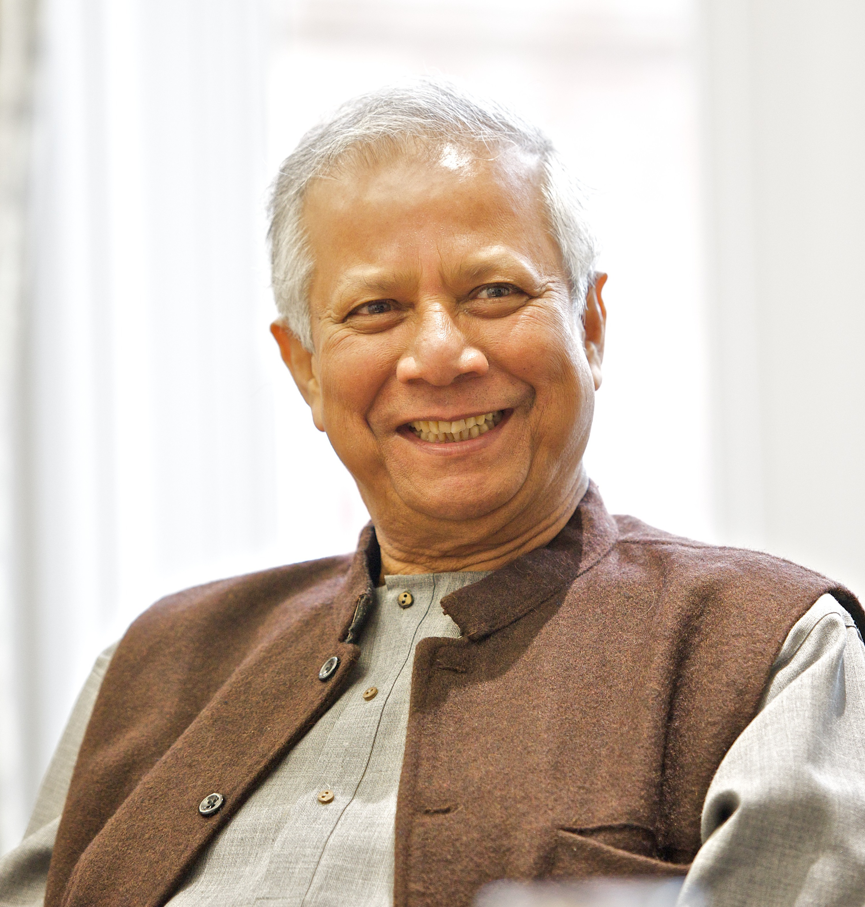 Nobel Peace Prize winner Muhammad Yunus championed his concept of social business as a way to release deprived people from the ‘prison’ of welfare at a special summit hosted by the University of Salford on Saturday 18 May.